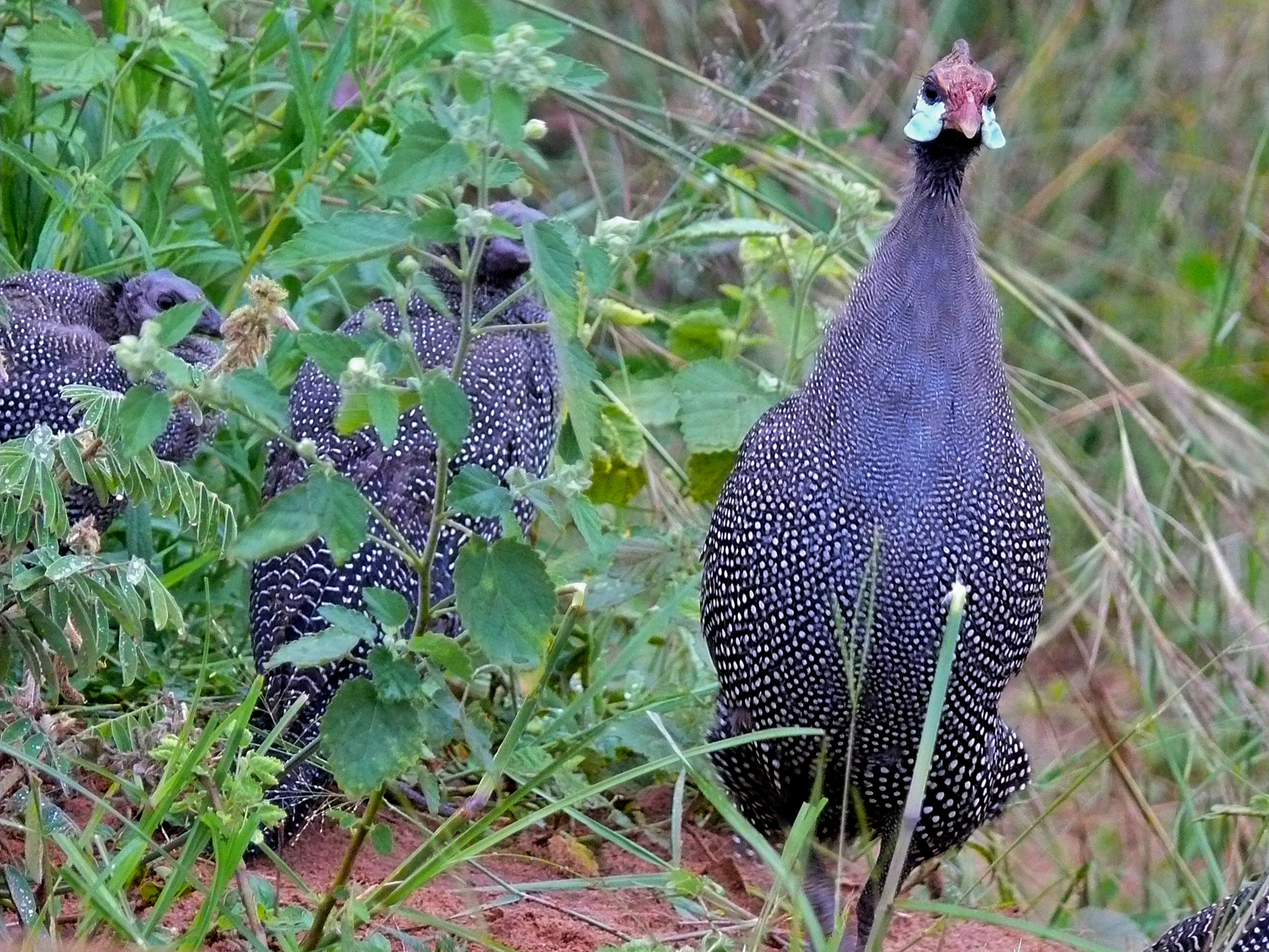 Helmeted guineafowl at Murchison's Falls NP, UGANDA